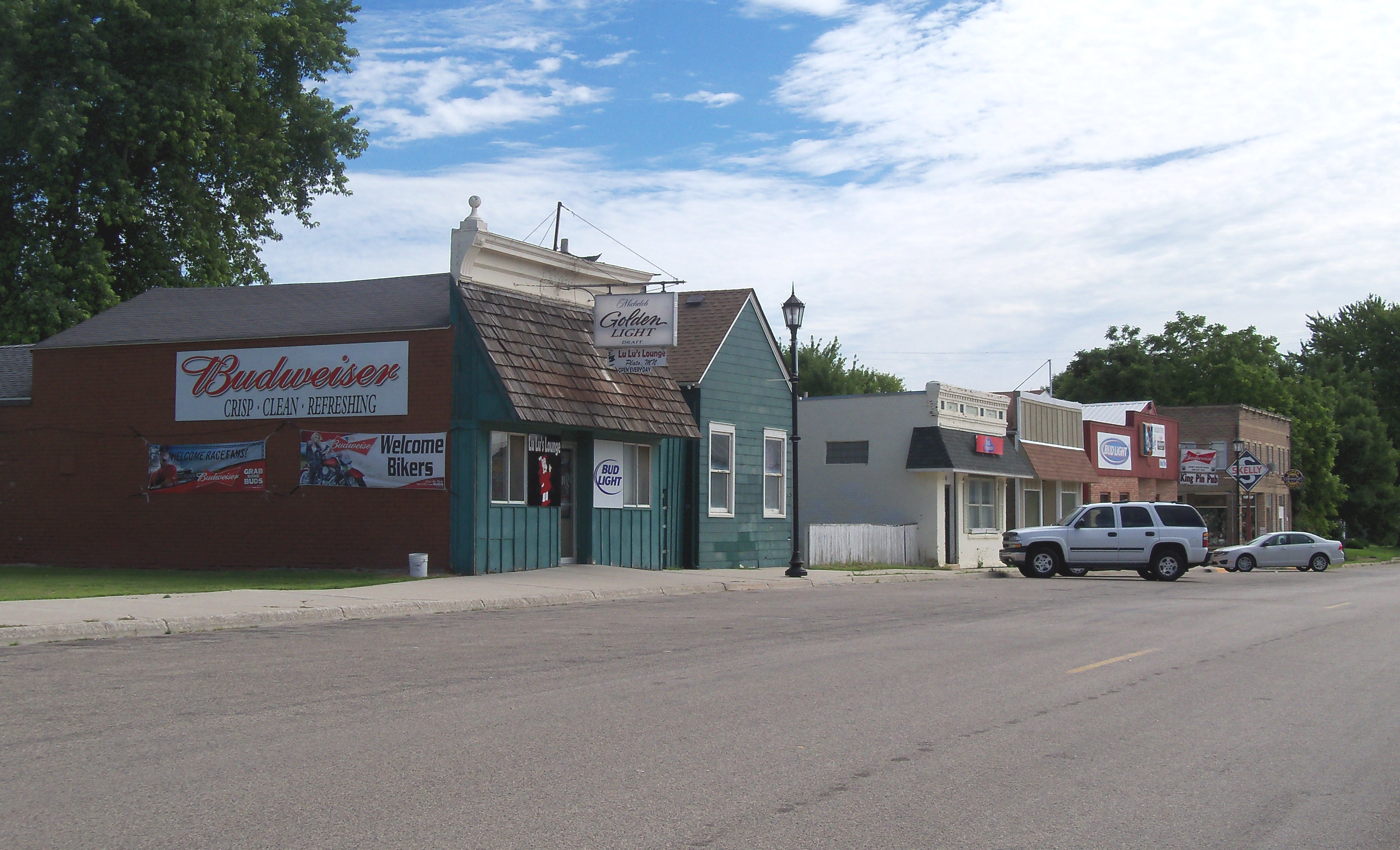 Street in Plato, Minnesota, USA.